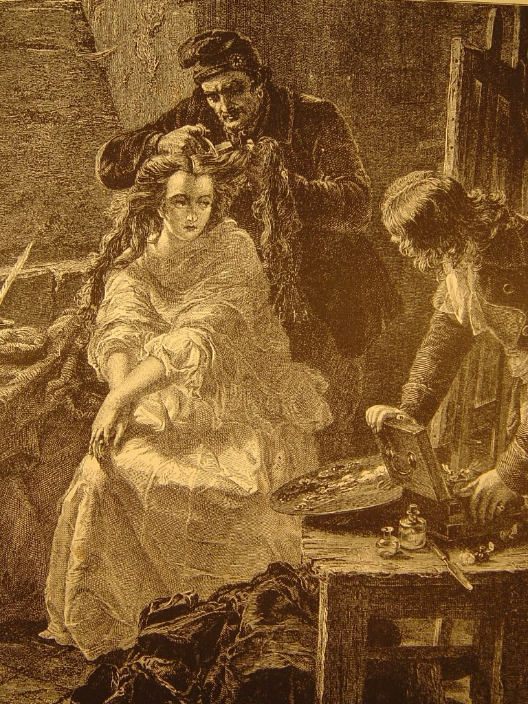 "Charlotte Corday" La dernière toilette par Edward Matthew Ward